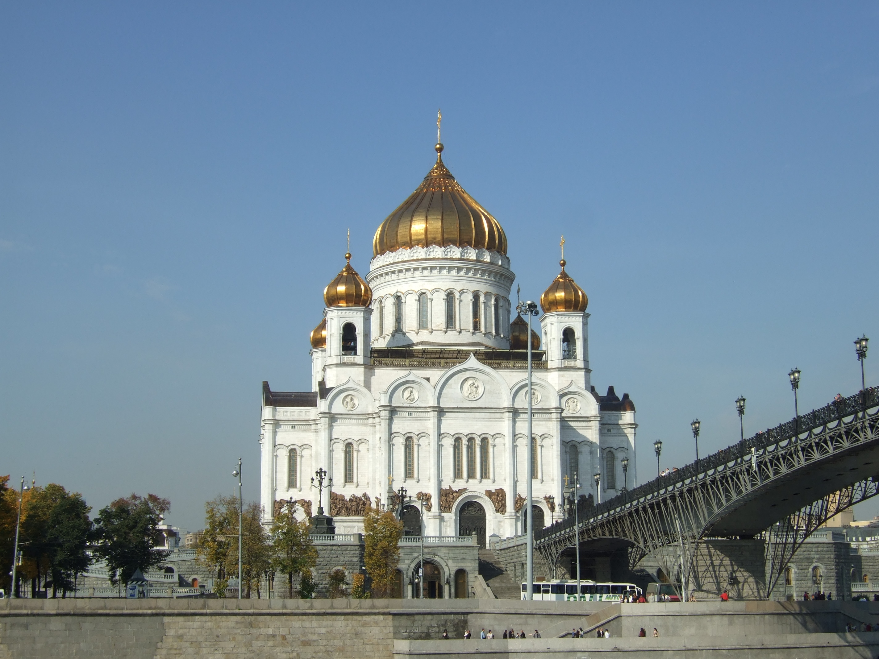 Cathedral of Christ the Saviour in Moscow